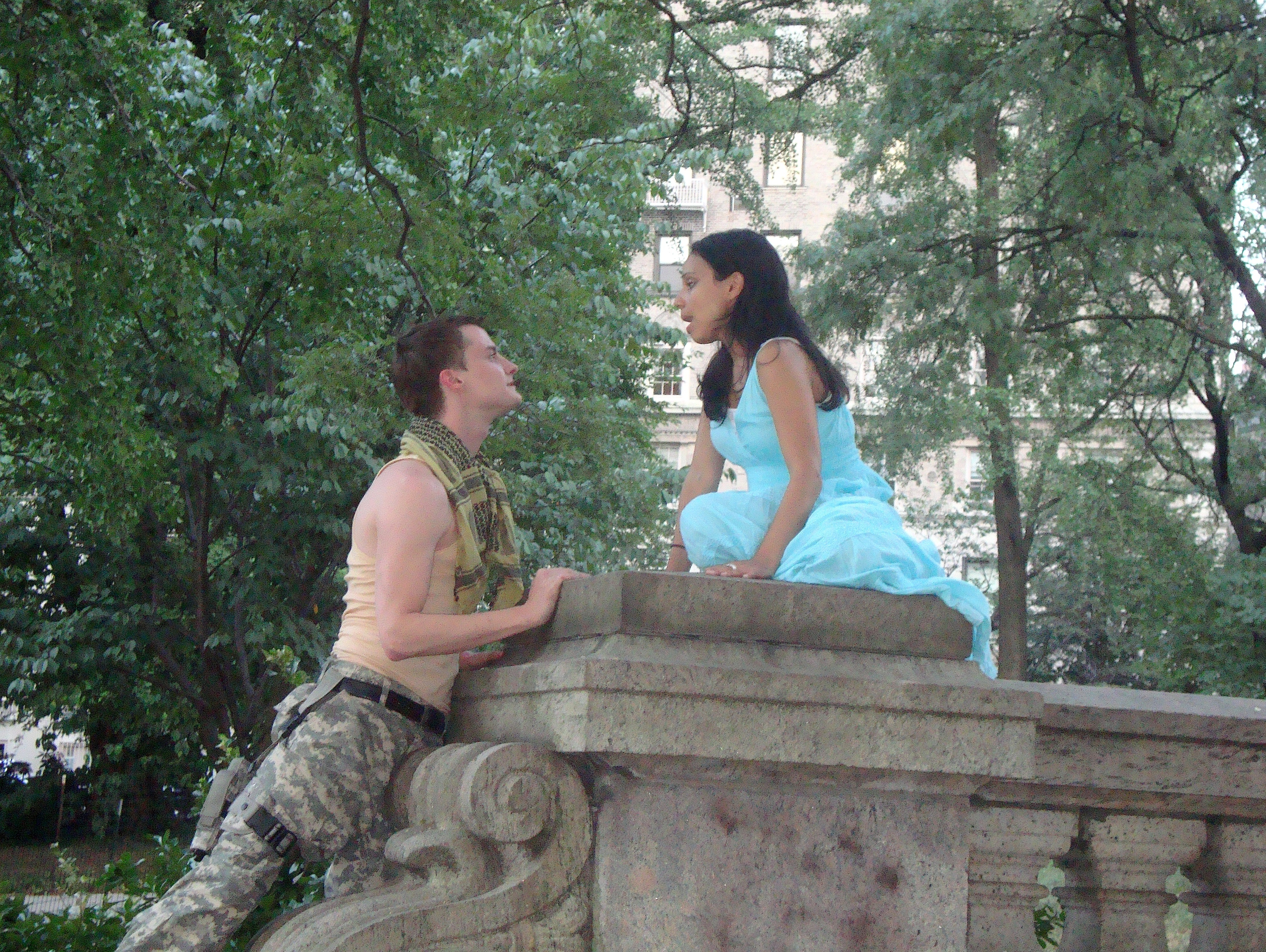 The Wooing Scene